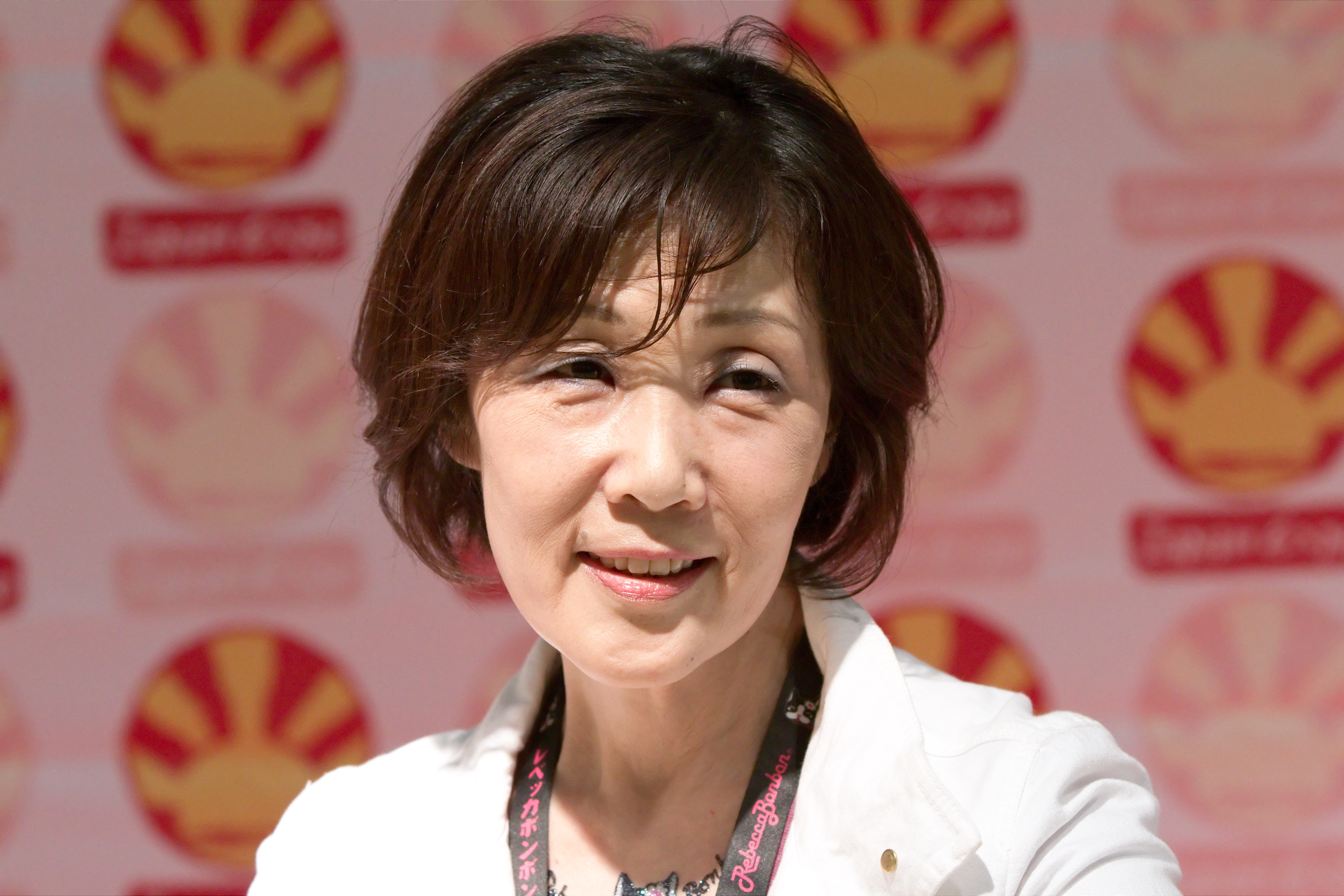 Autograph session with Yuko Shimizu at Japan Expo 2010 (Paris, France).